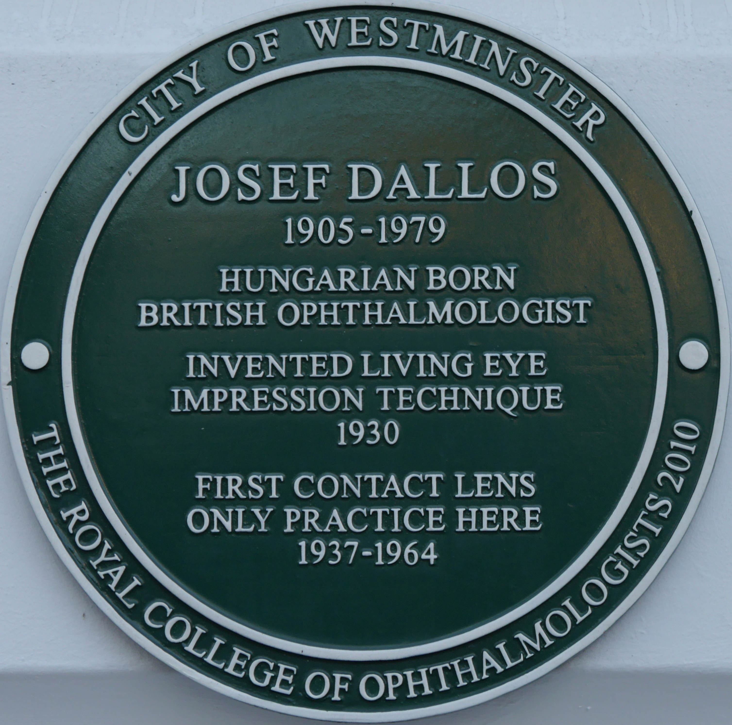 Josef Dallos plaque